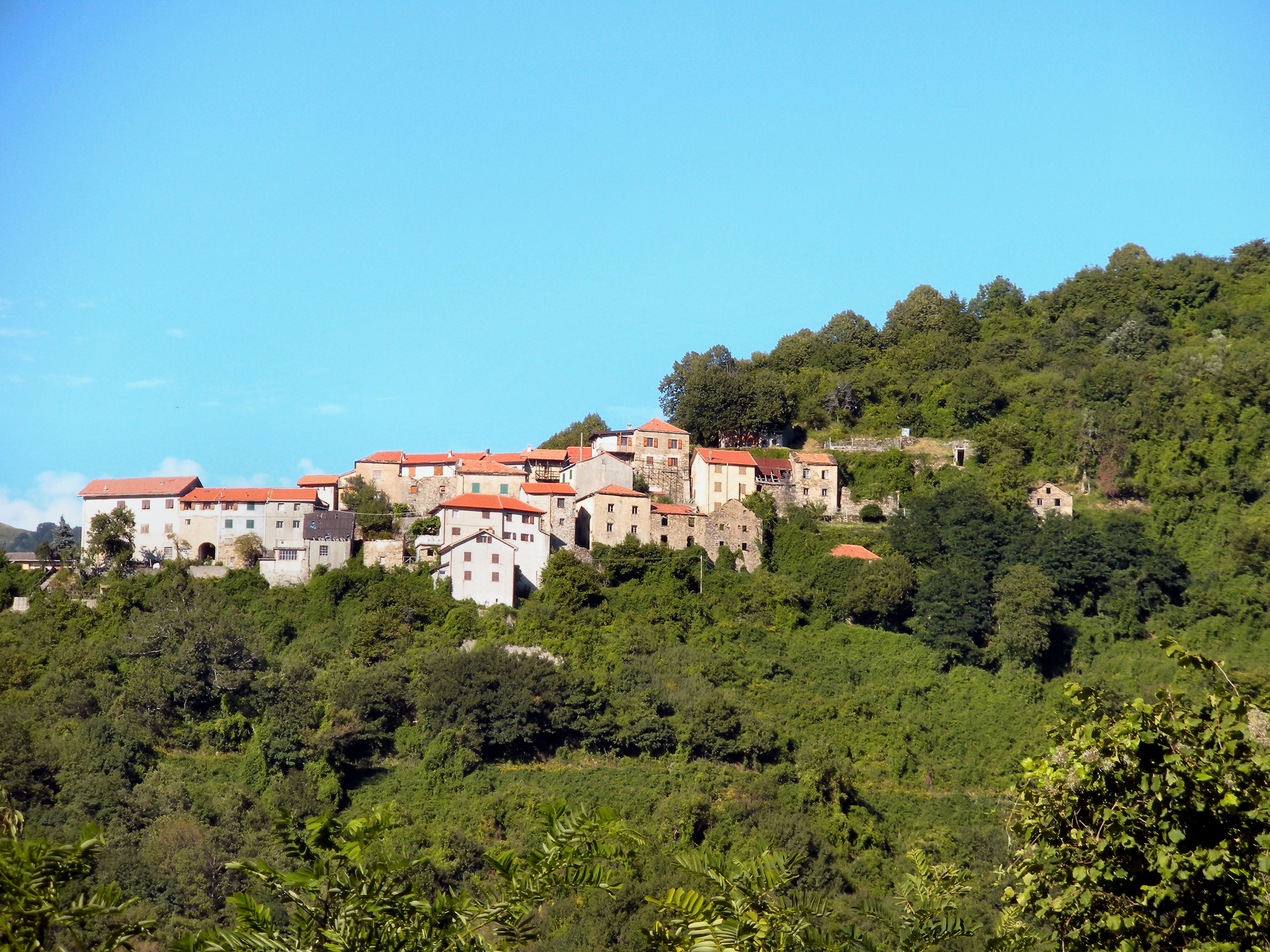 Valbrevenna (province of Genoa, Italy), the village of Cerviasca